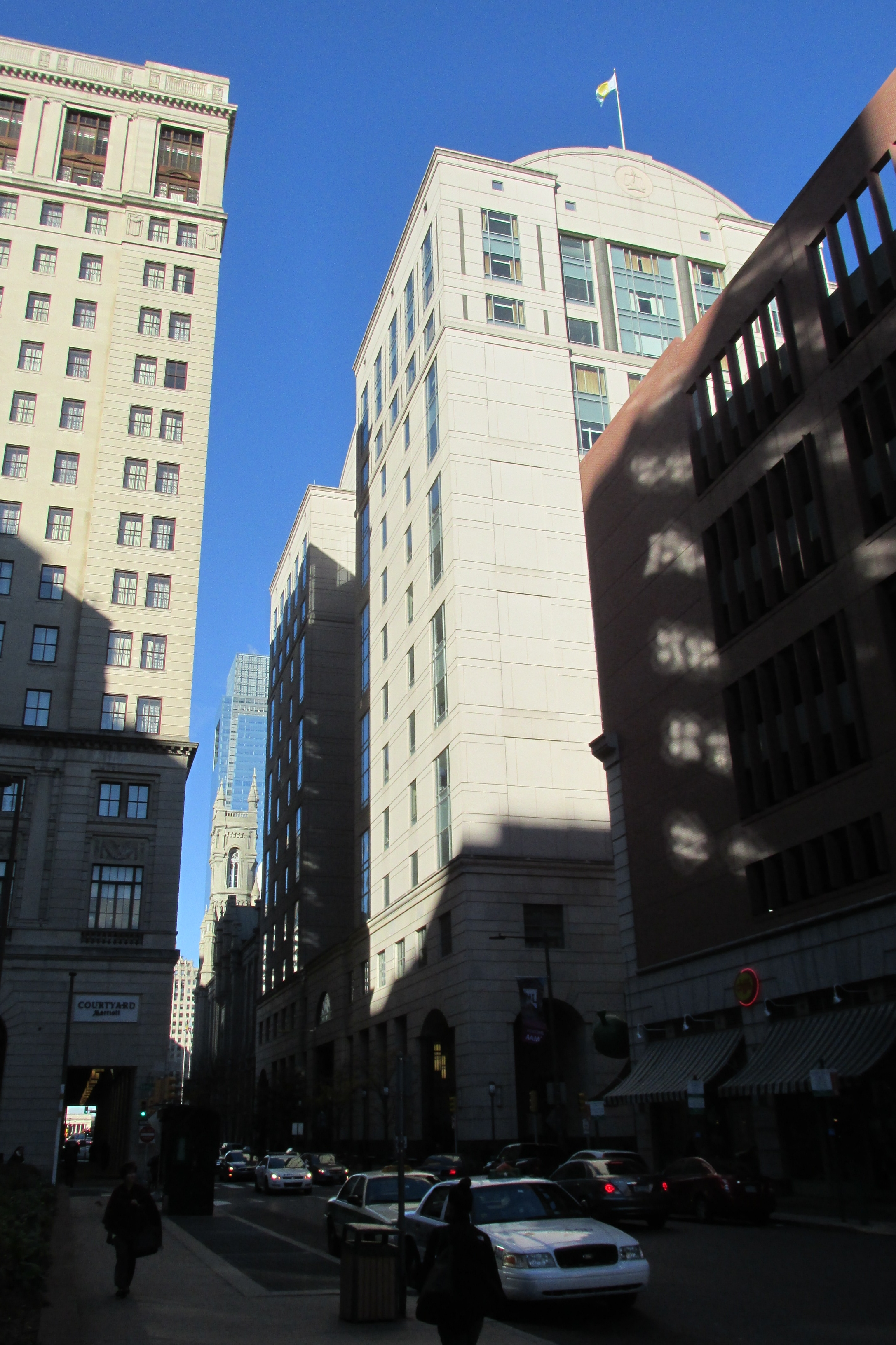 Criminal Justice Center, Philadelphia Pennsylvania - 2013